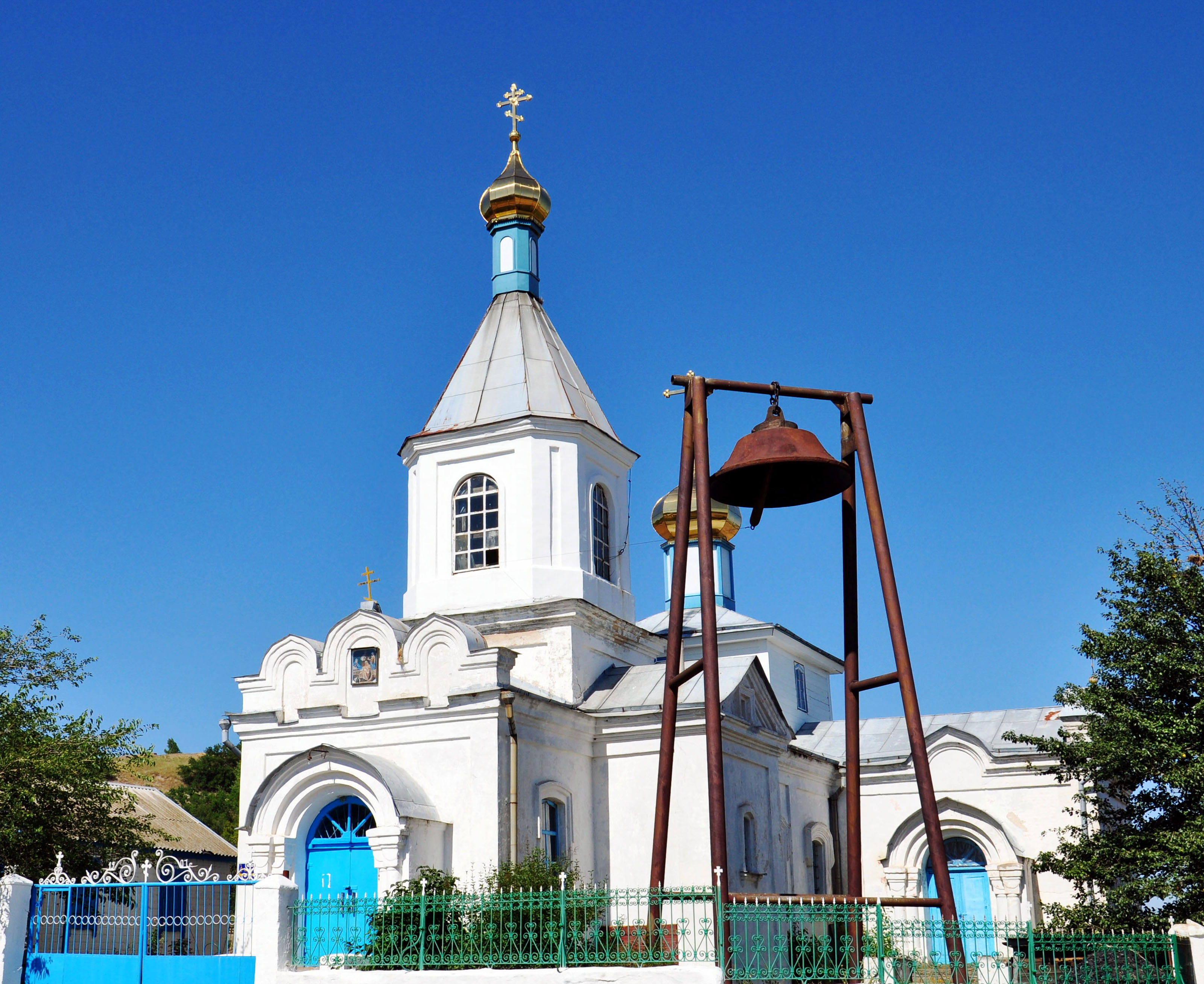 The temple in honour of the Nativity of the MostHoly mother of God(1879), the Rostov region, Ust-Donetsk district, Khutor Kanygin,Russia